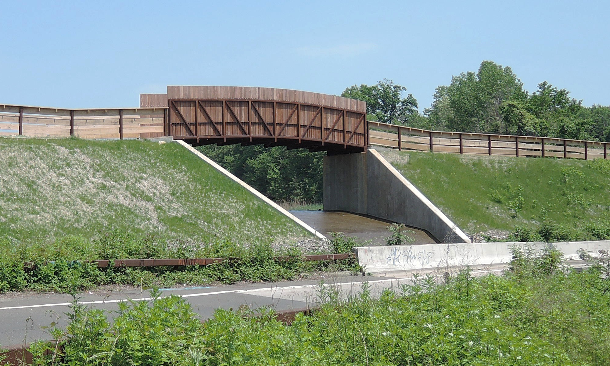 Looking northeast at dam on a sunny hot afternoon.